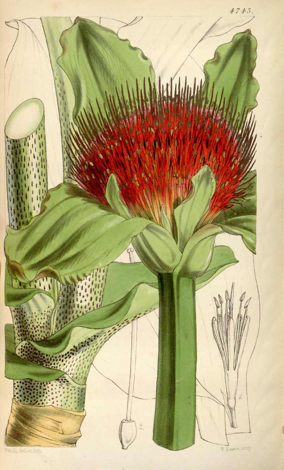 Scadoxus puniceus (L.) Friis & Nordal, Plate 4745 figured as Haemanthus insignis Hook.